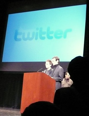 Biz Stone and Jack Dorsey, co-founders, accepting a 2007 Crunchie Award for Twitter, best mobile start-up, in San Francisco, California, USA in 2008